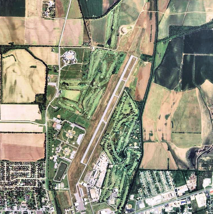 USGS digital orthophoto of Sikeston Memorial Municipal Airport in Missouri